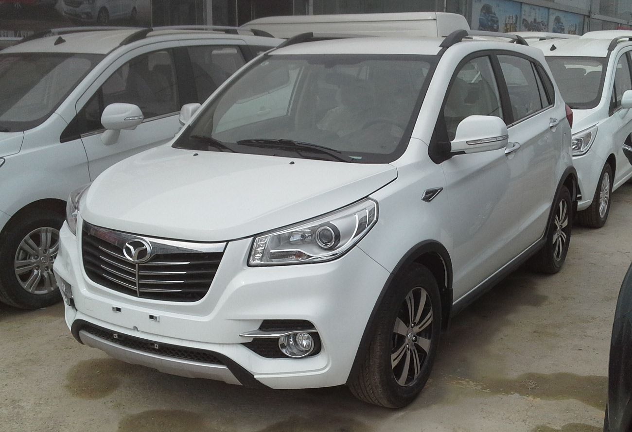 Enranger G3 photographed in Zhengzhou, Henan province, China.